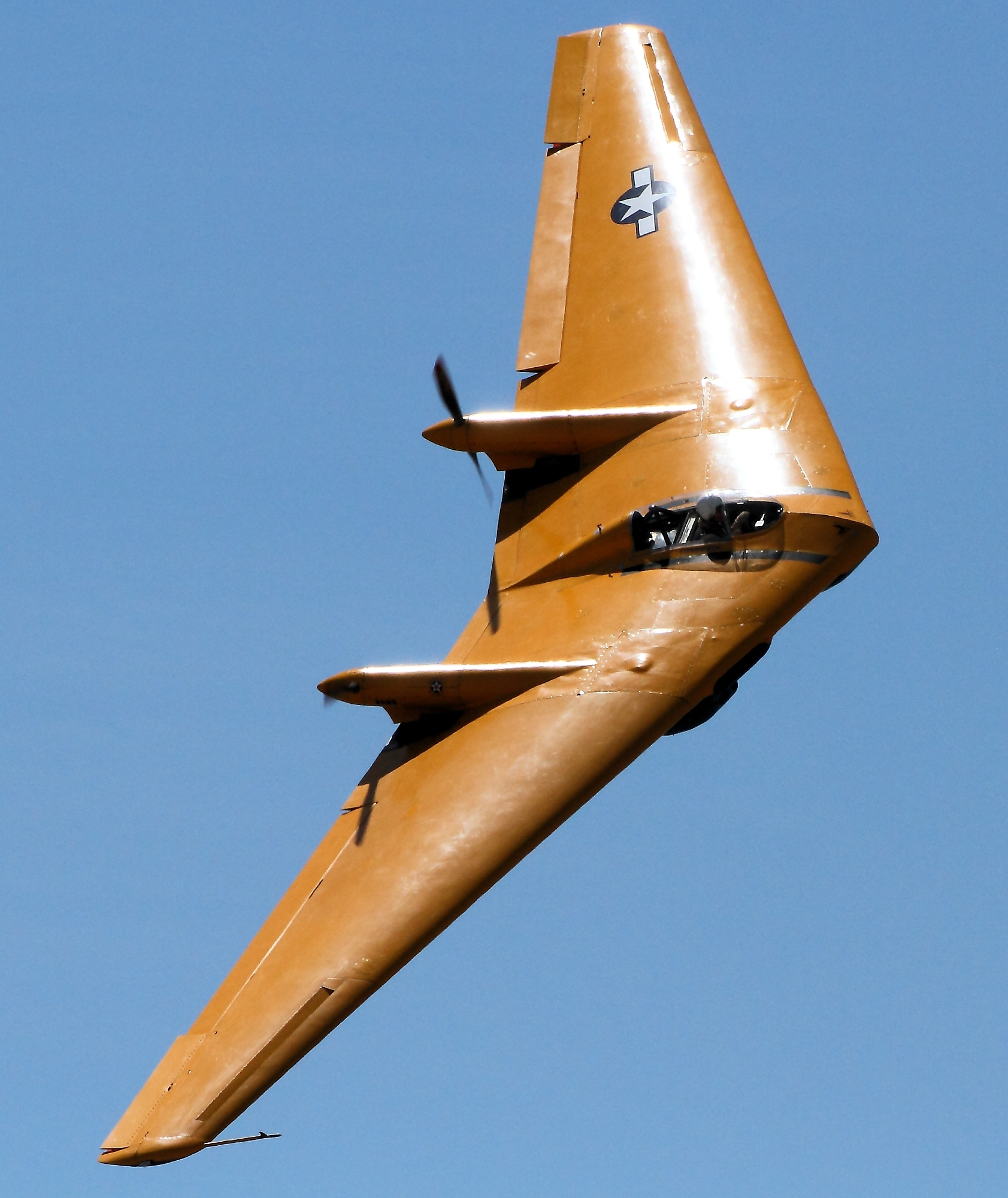 N9MB Flying Wing - Chino Airshow 2014